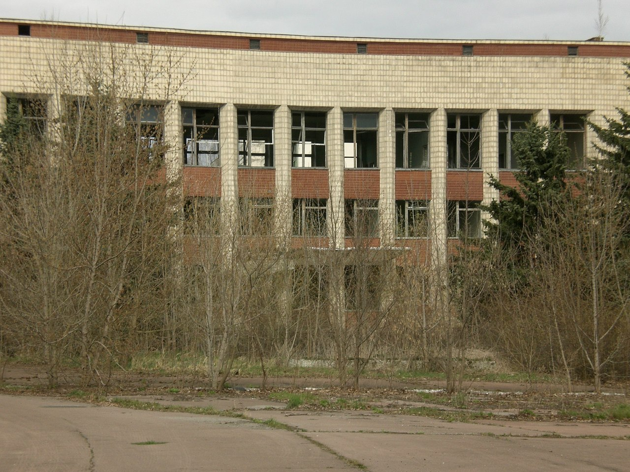 Poliske administration building today.